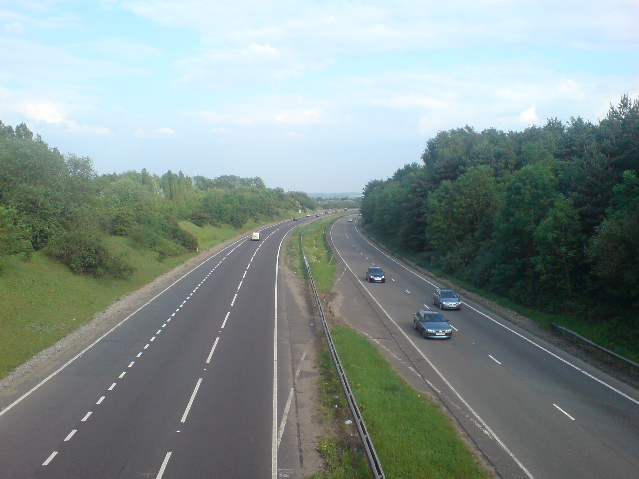 My image Jamsta 21:57, 24 May 2007 (UTC)